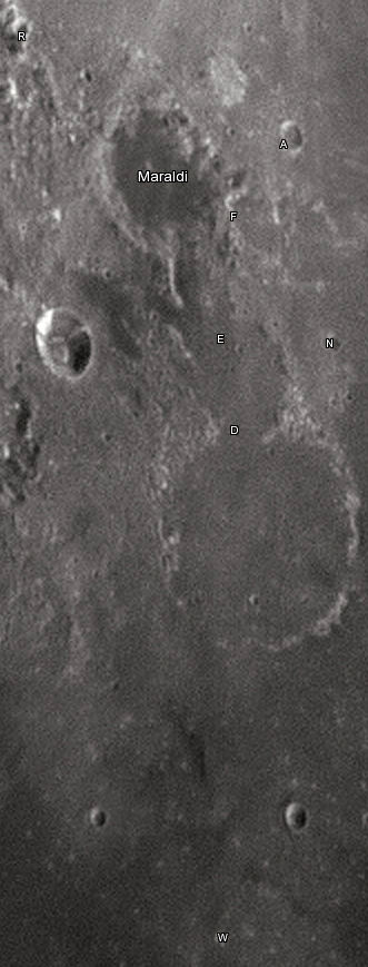 Maraldi lunar crater as seen from Earth with satellite craters labeled